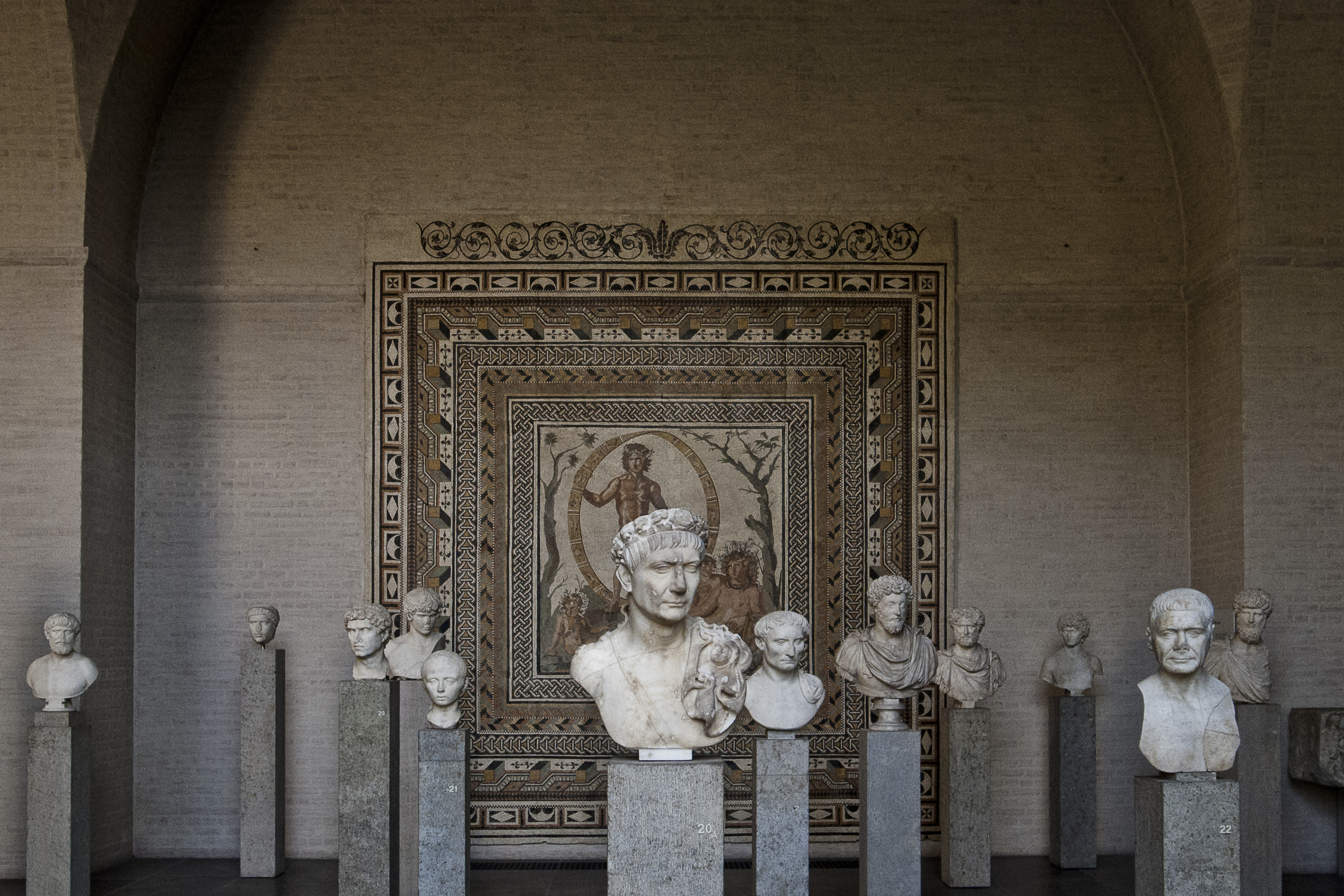 This is an overview of the Munich Glyptothek's room that contains sculptures from the Roman period.